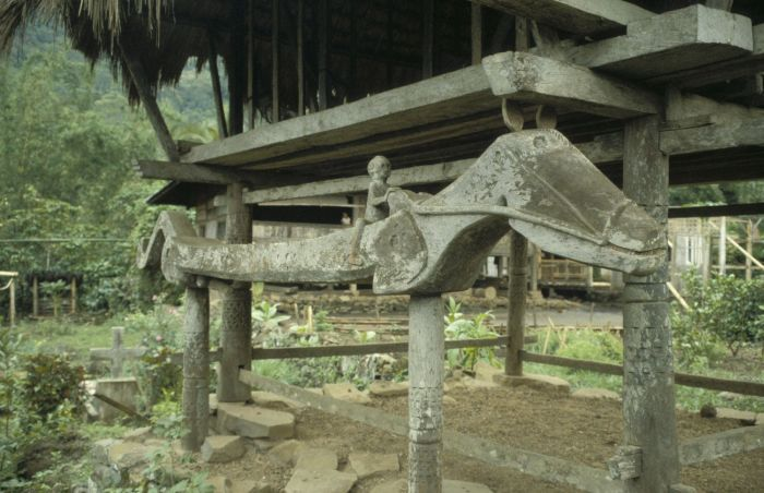 Spirit house